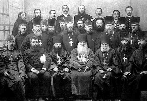 The photo of Bishop of Yakutsk Melentiy (Yakimov) with priests.